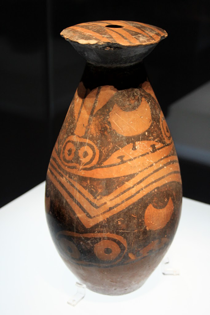 Pot with animal face or mask. Painted earthenwear pot (hu), H. 27.8 cm. Shijia type, Yangshao culture. Excavated in 1975, Jiangzhai site in Lintong county, Shaanxi province. Shaanxi History Museum, Xi'an.